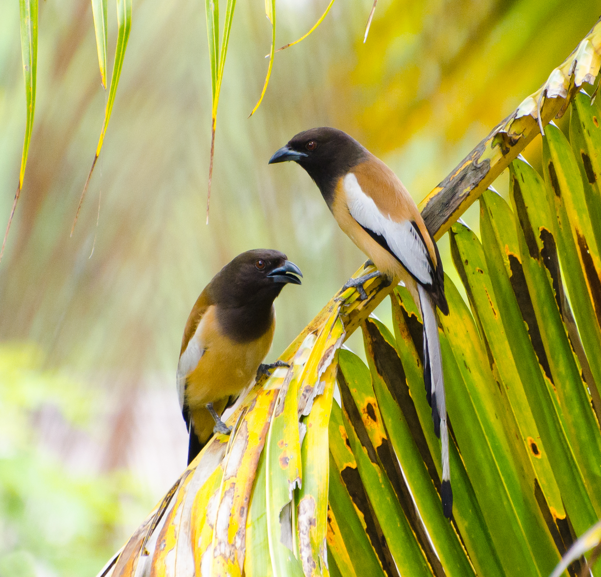 treepie